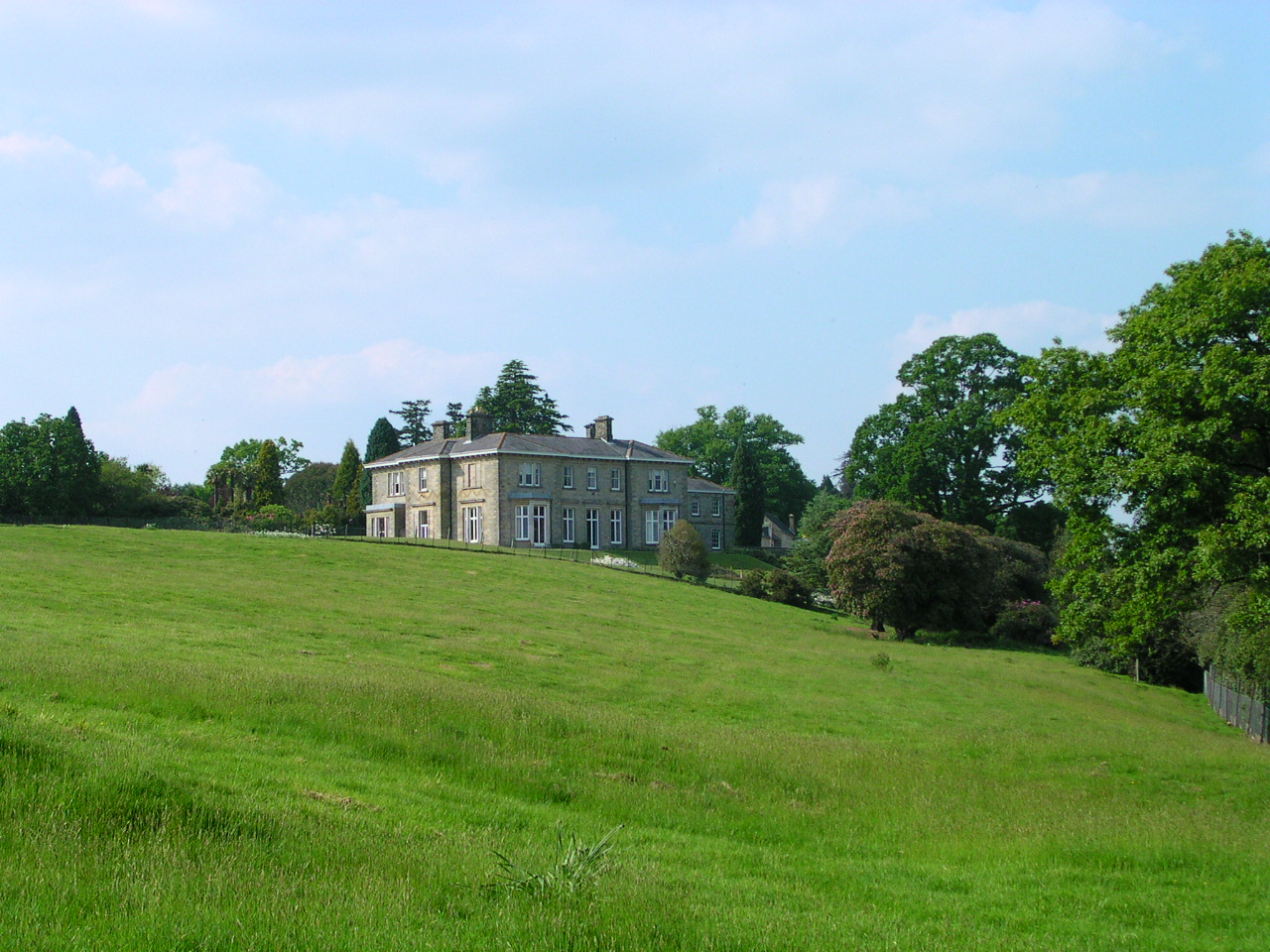 Leonardslee, Lower Beeding, West Sussex, England.